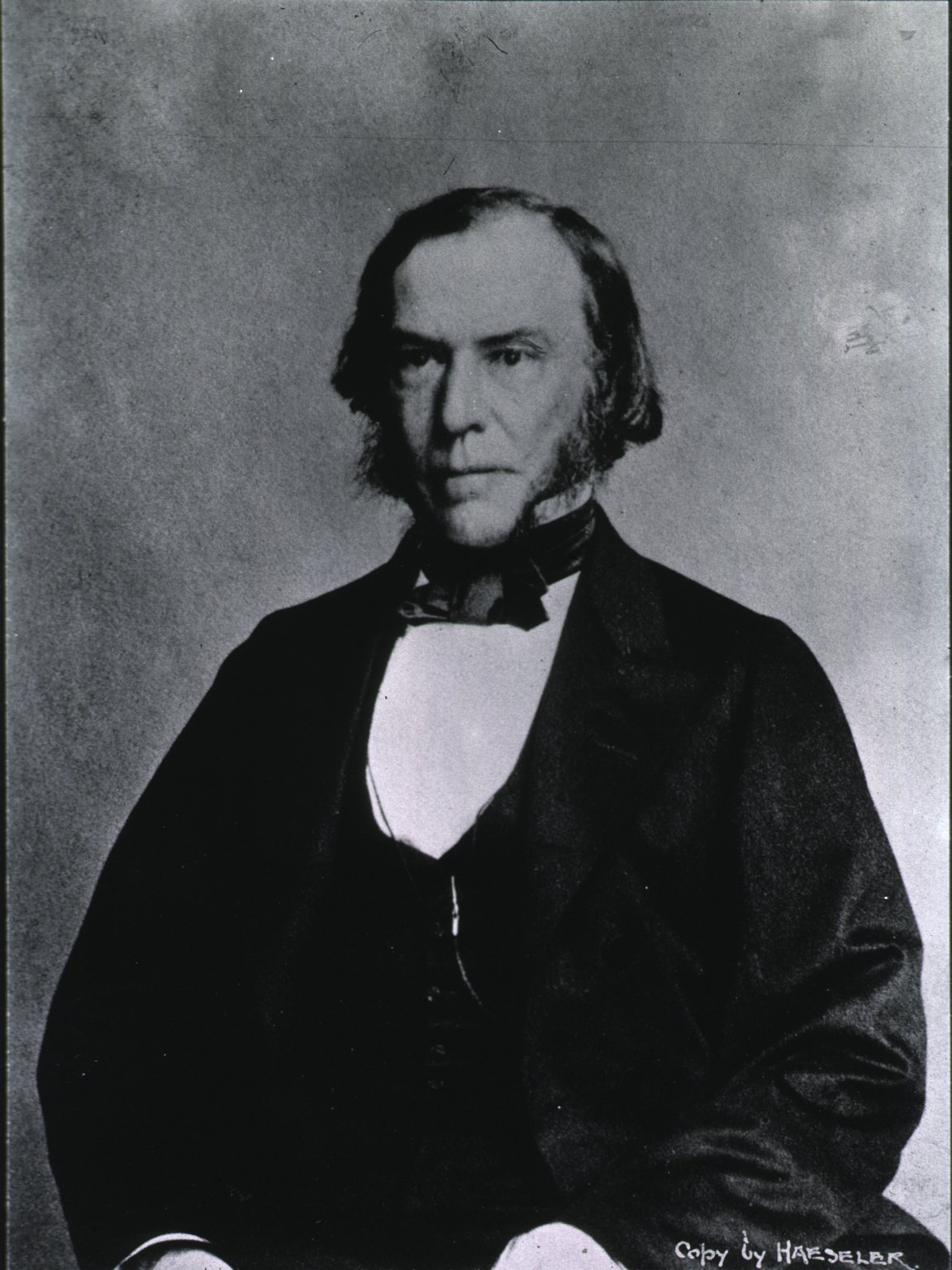 Charles-Édouard Brown-Séquard (1817–1894), neurologist and physiologist